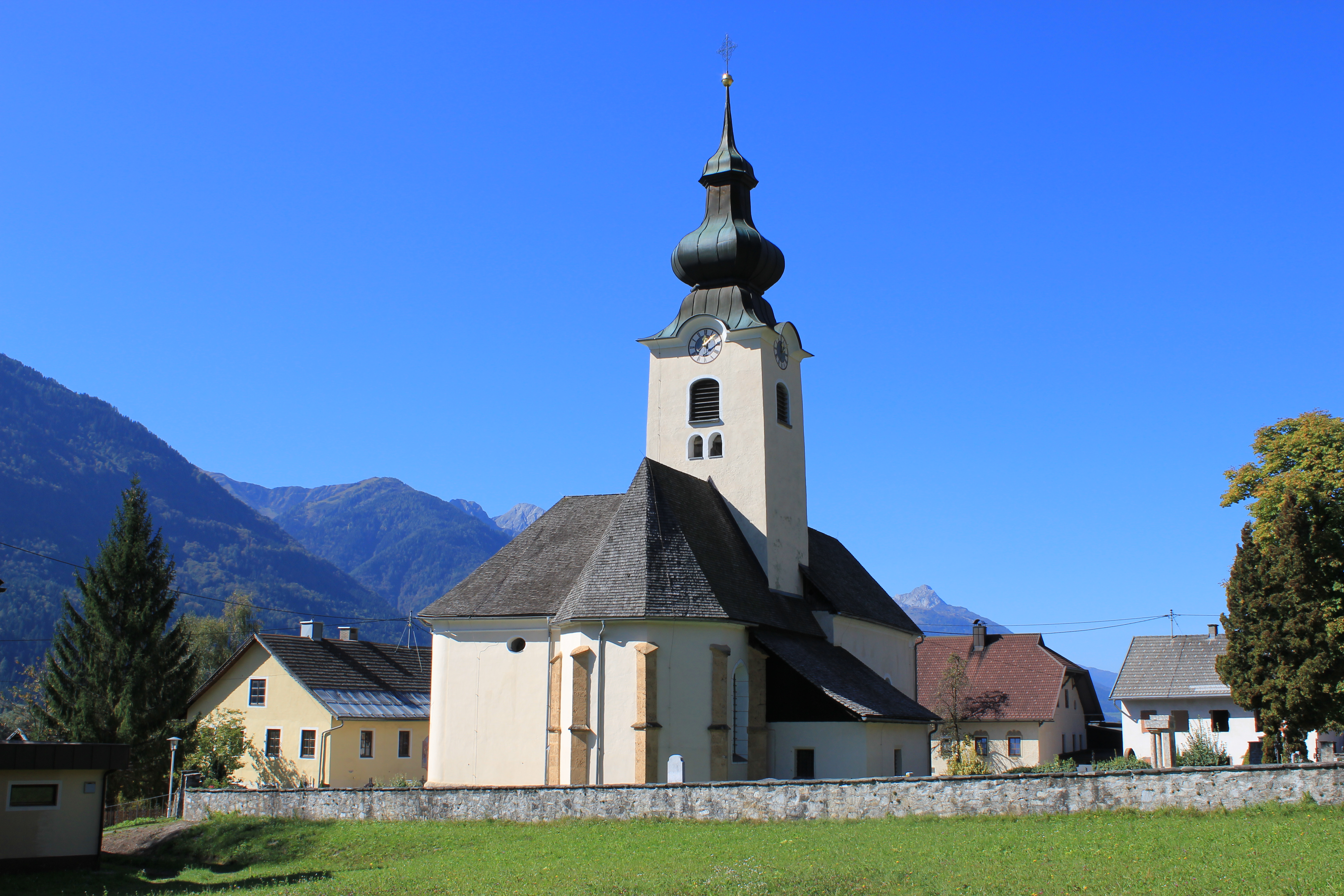 Parish church in Grafendorf in the community of Kirchbach